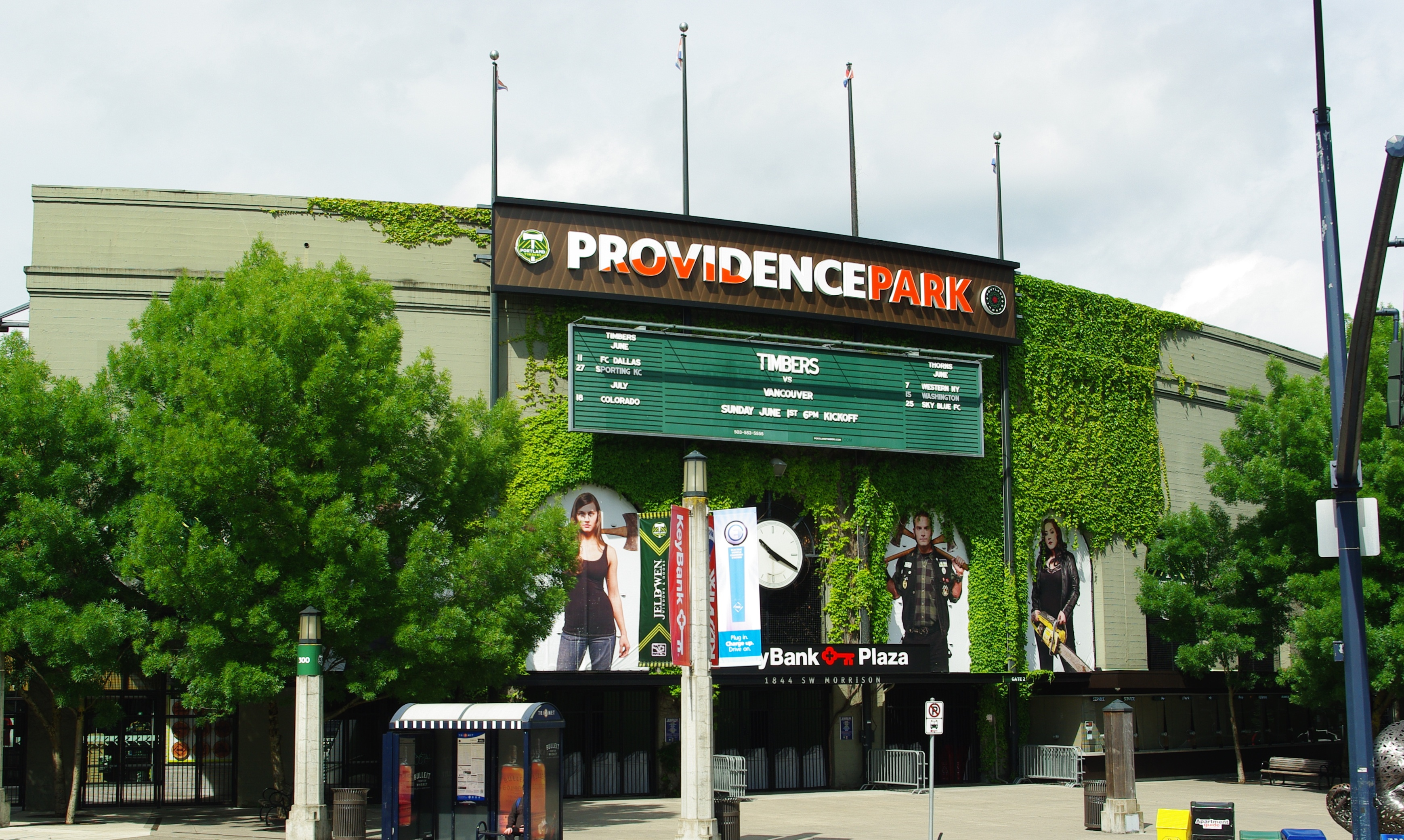 Main entrance at 18th to the renamed Providence Park in Portland, Oregon.